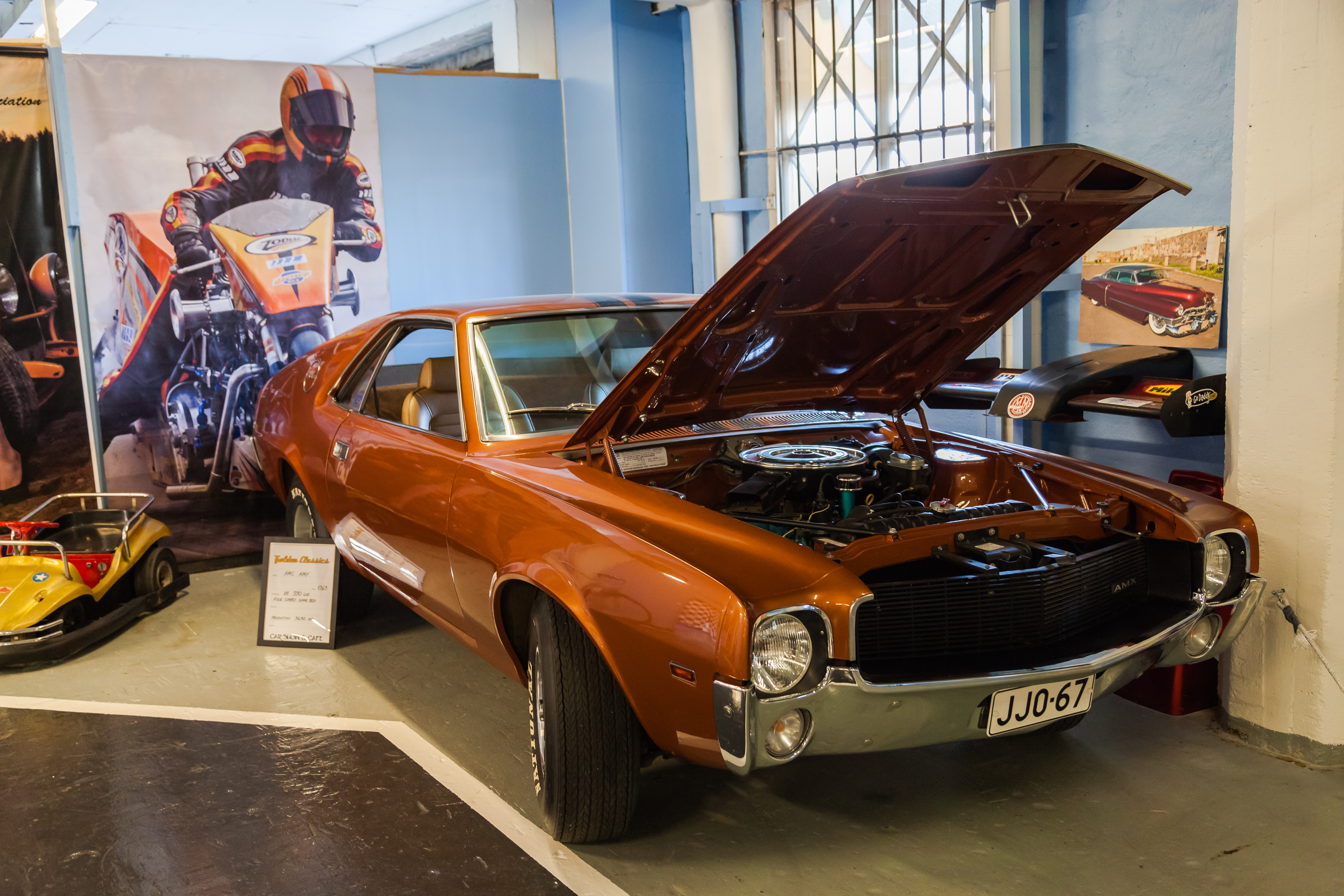 AMC AMX of 1969, Helsinki, Finnland